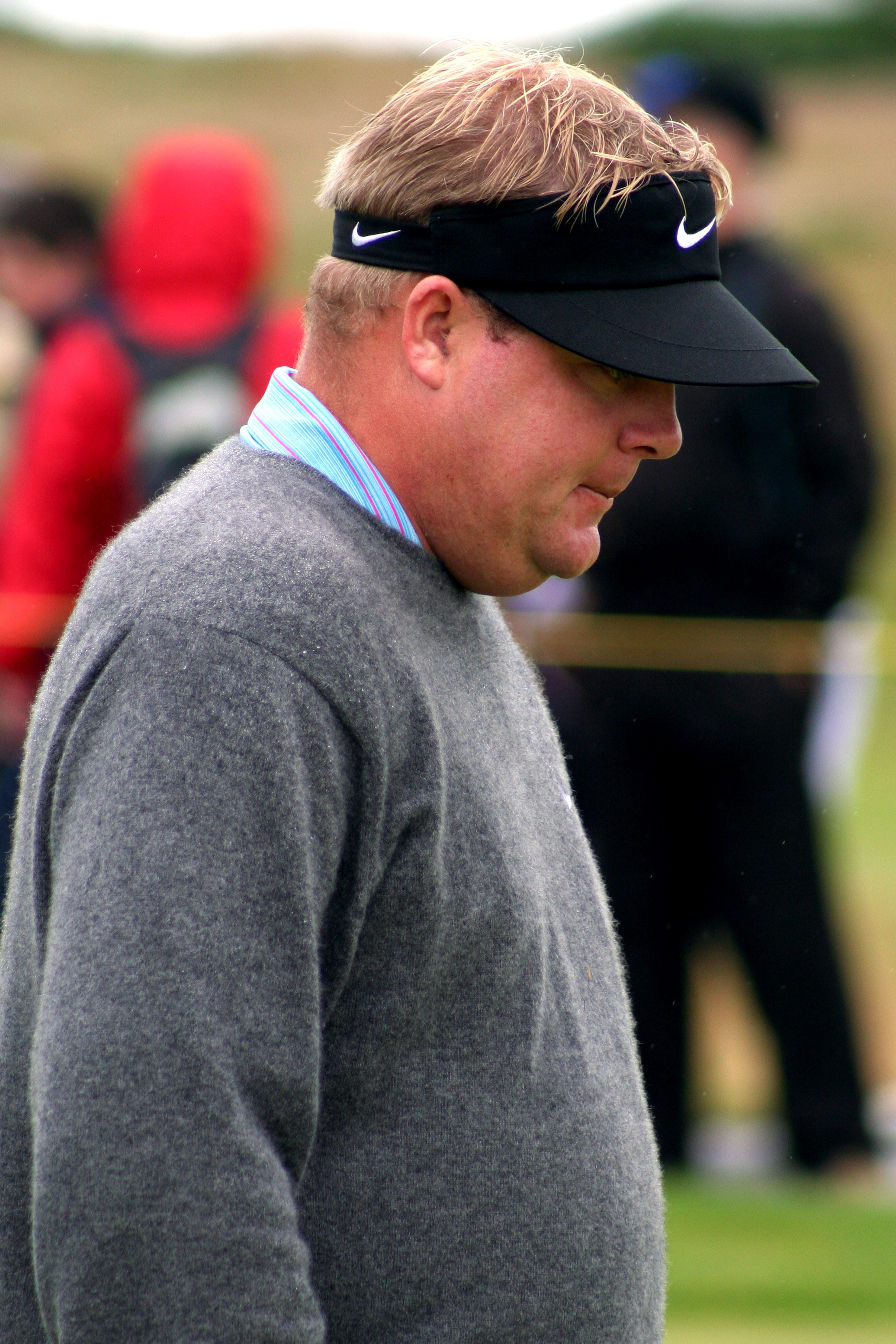 Carl Pettersson at the 2007 Open Championship at Carnoustie.